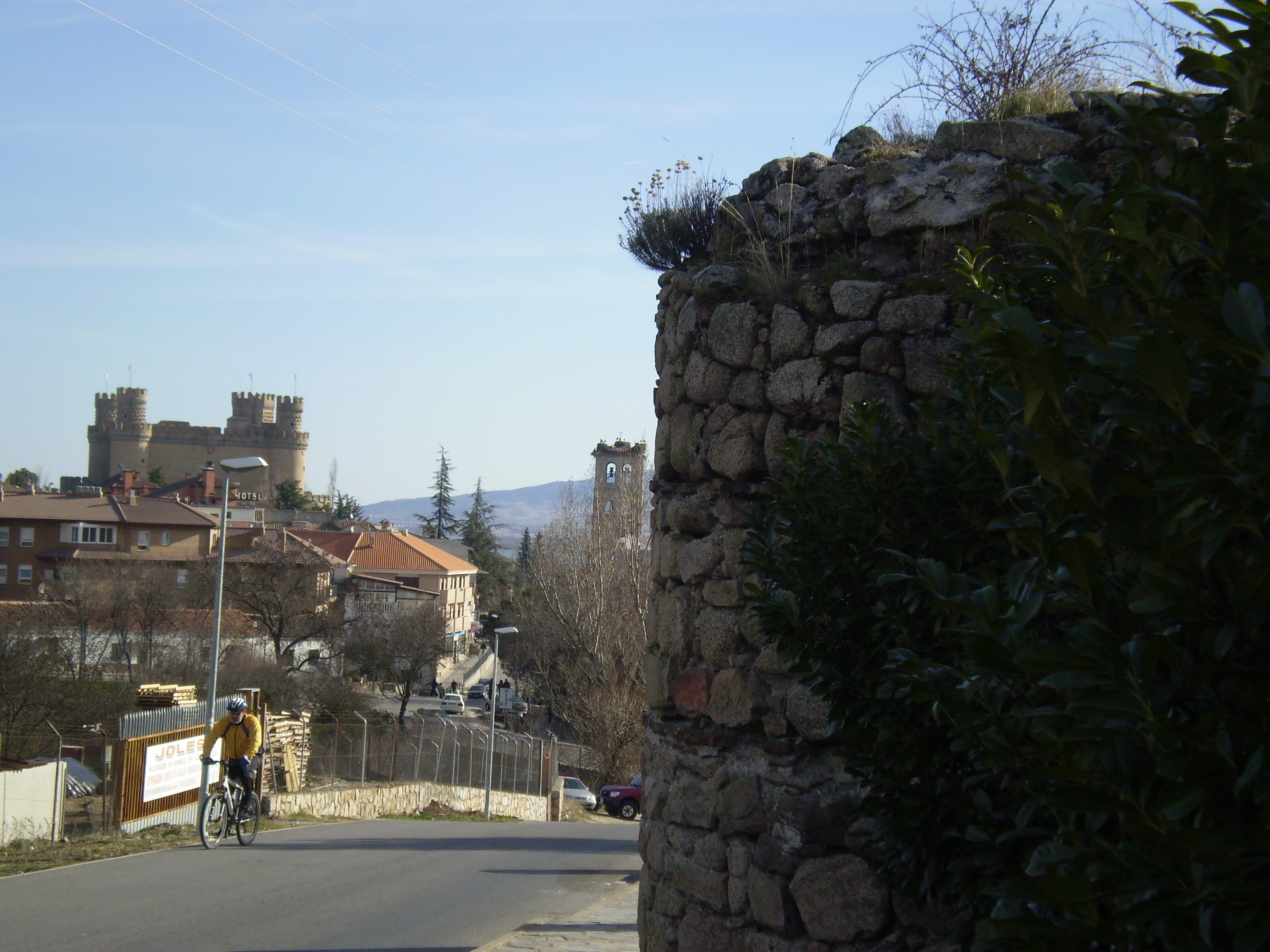 Old castle in Manzanares el Real, Madrid, Spain